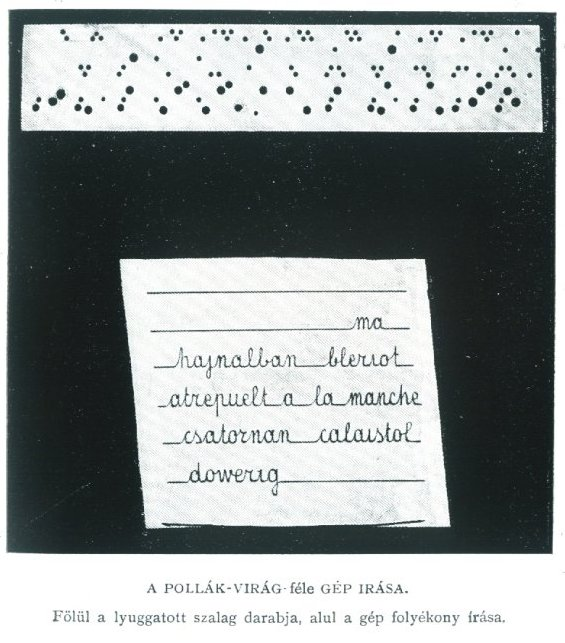 Writing with Pollák-Virág machine